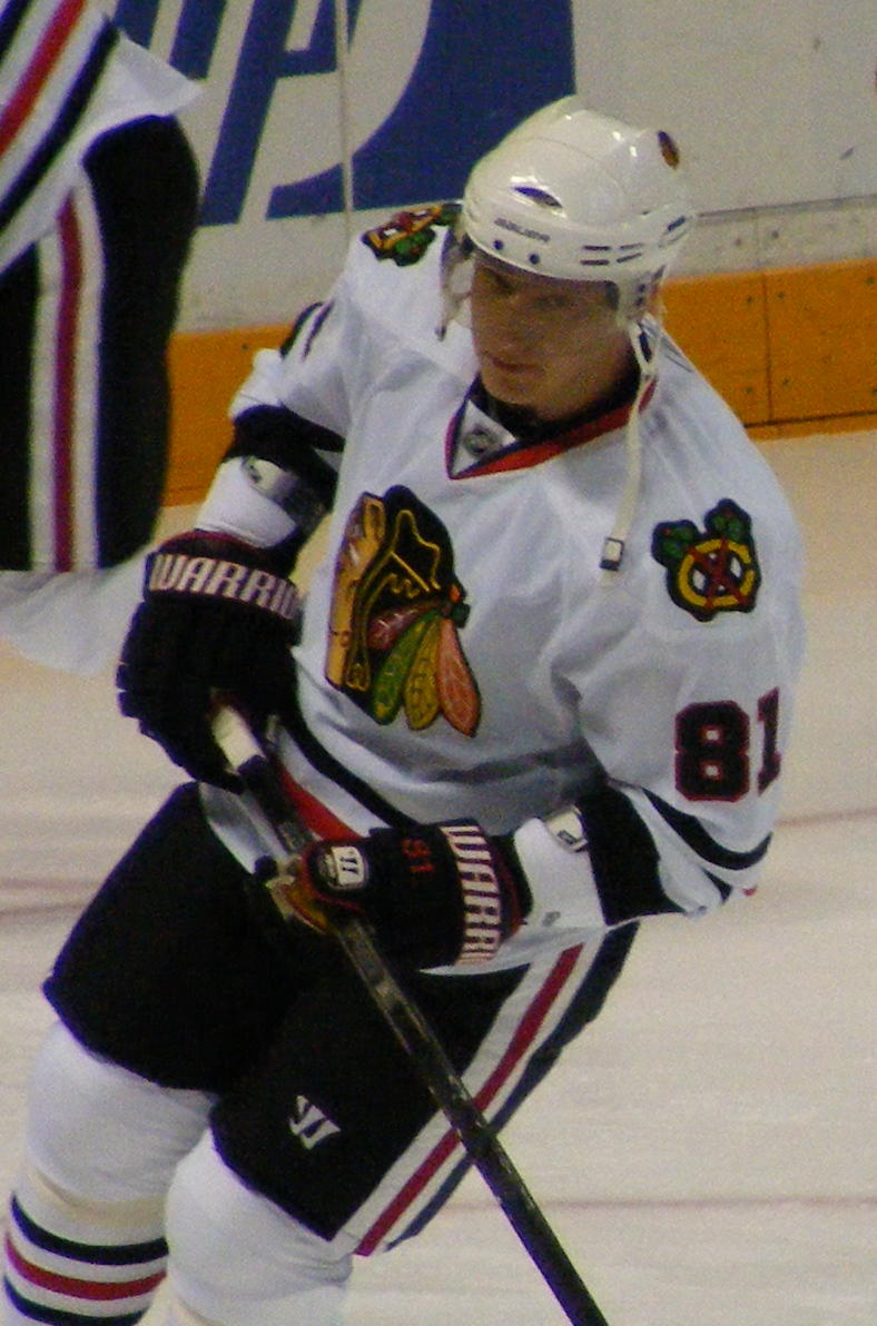 Marian Hossa during pre-warm-up at HP Pavilion in San Jose, CA.